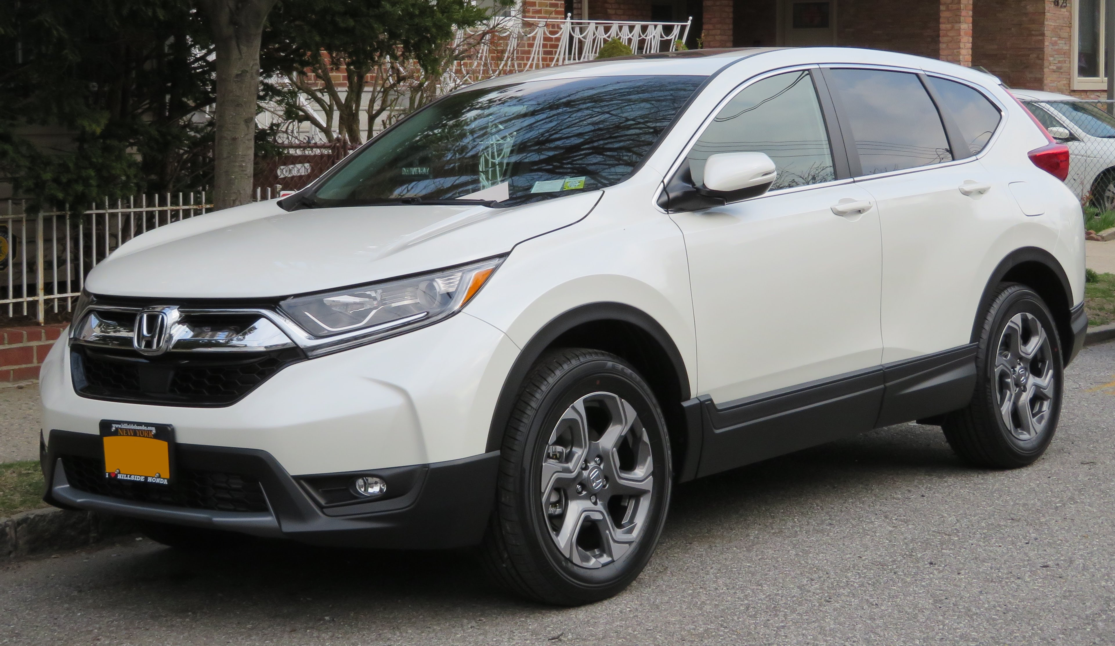 In Queens, New York